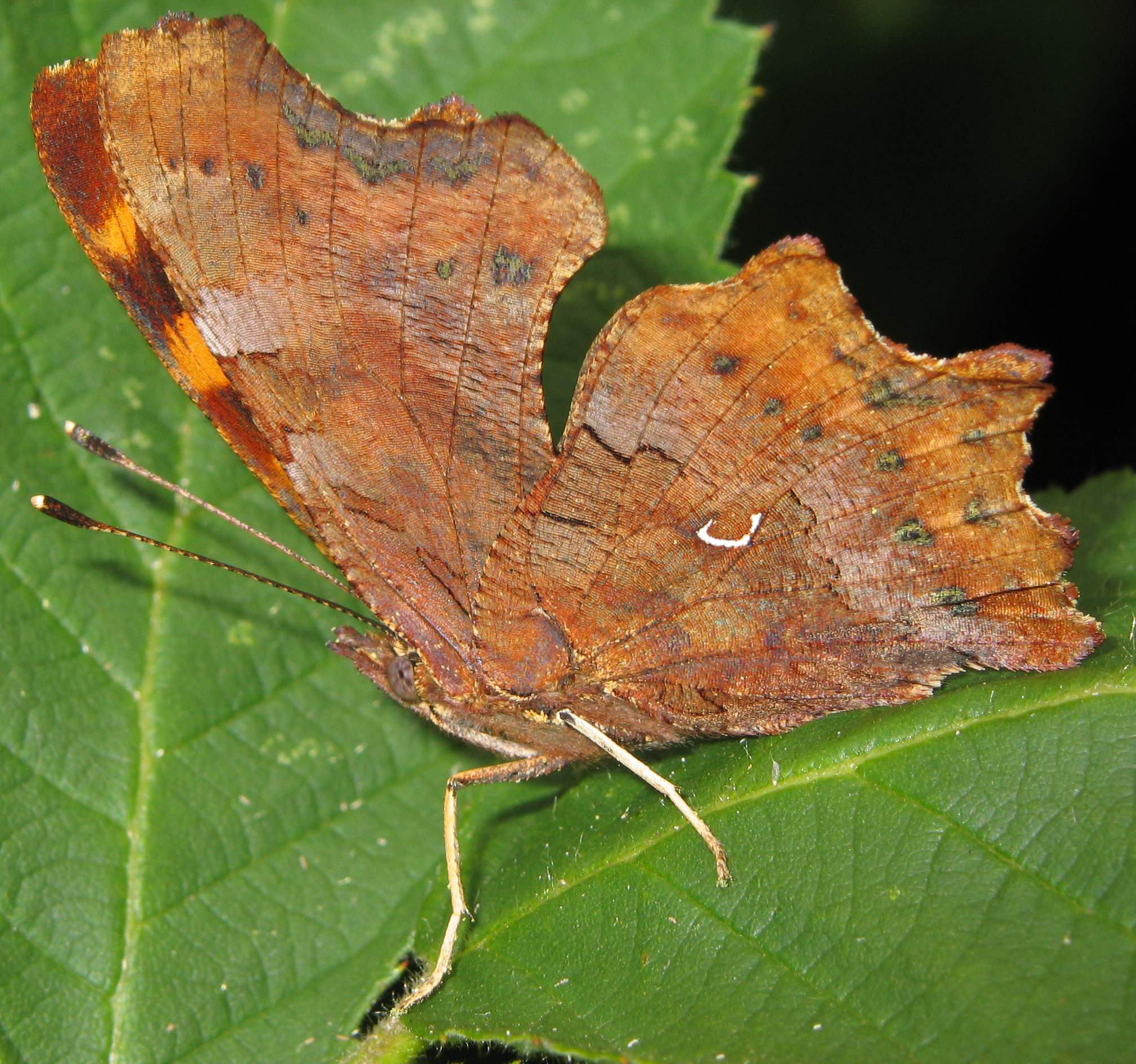 A Comma (Polygonia C-album). Author: soebe Date: July 15, 2005 Location: Eckernförde, Northern Germany Taken by Soebe in Northern Germany (Eckernförde) and released under GNU FDL.